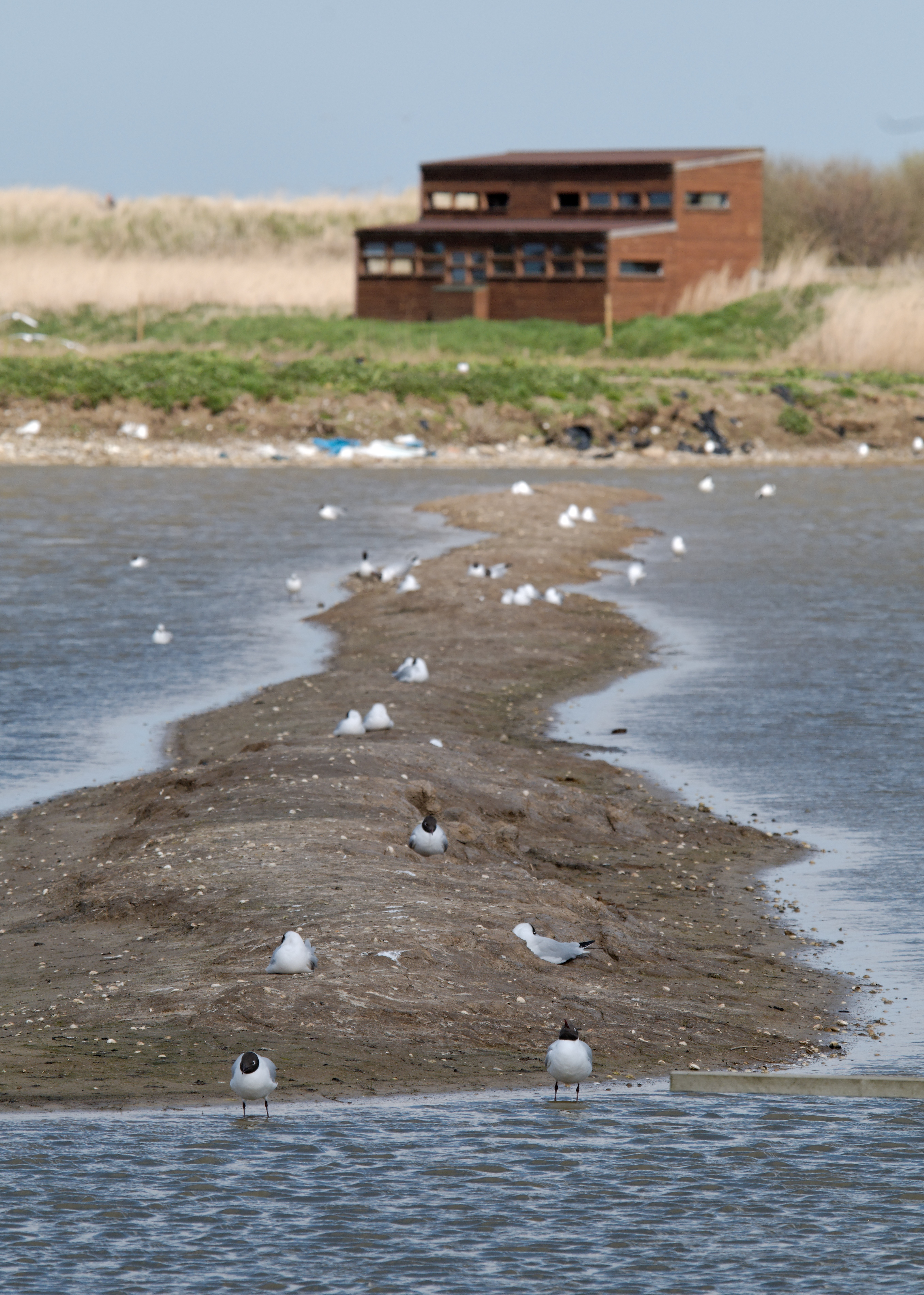 Black-headed Gulls in front of one of the bird hides at Minsmere RSPB reserve.